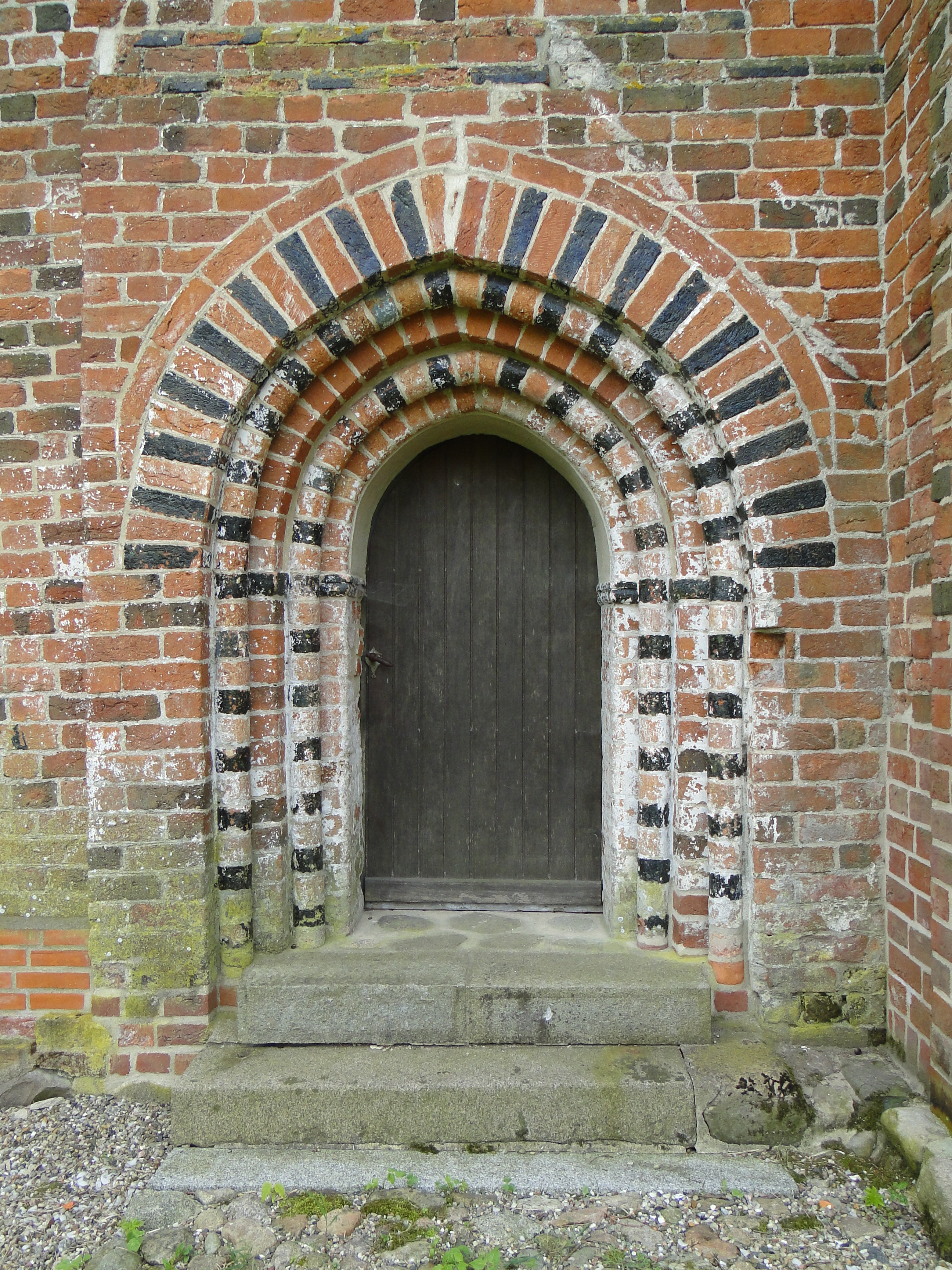 Church in Döbbersen, district Ludwigslust-Parchim, Mecklenburg-Vorpommern, Germany